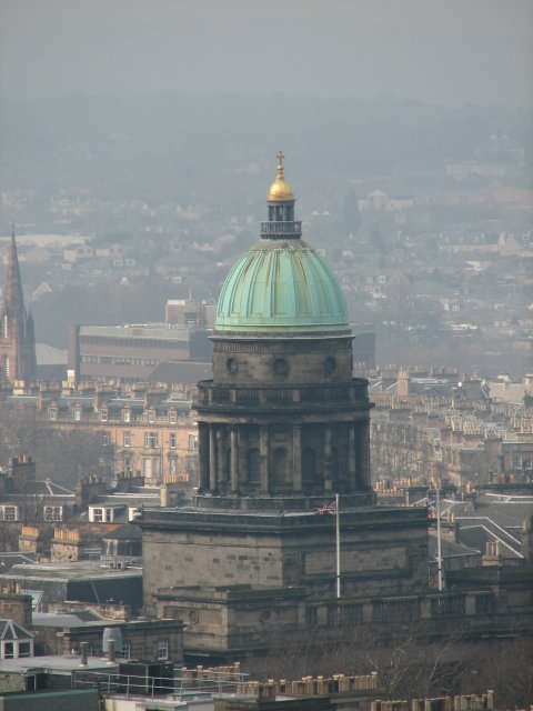 West Register House The dome of West Register House, Charlotte Square. Viewed from Edinburgh Castle.